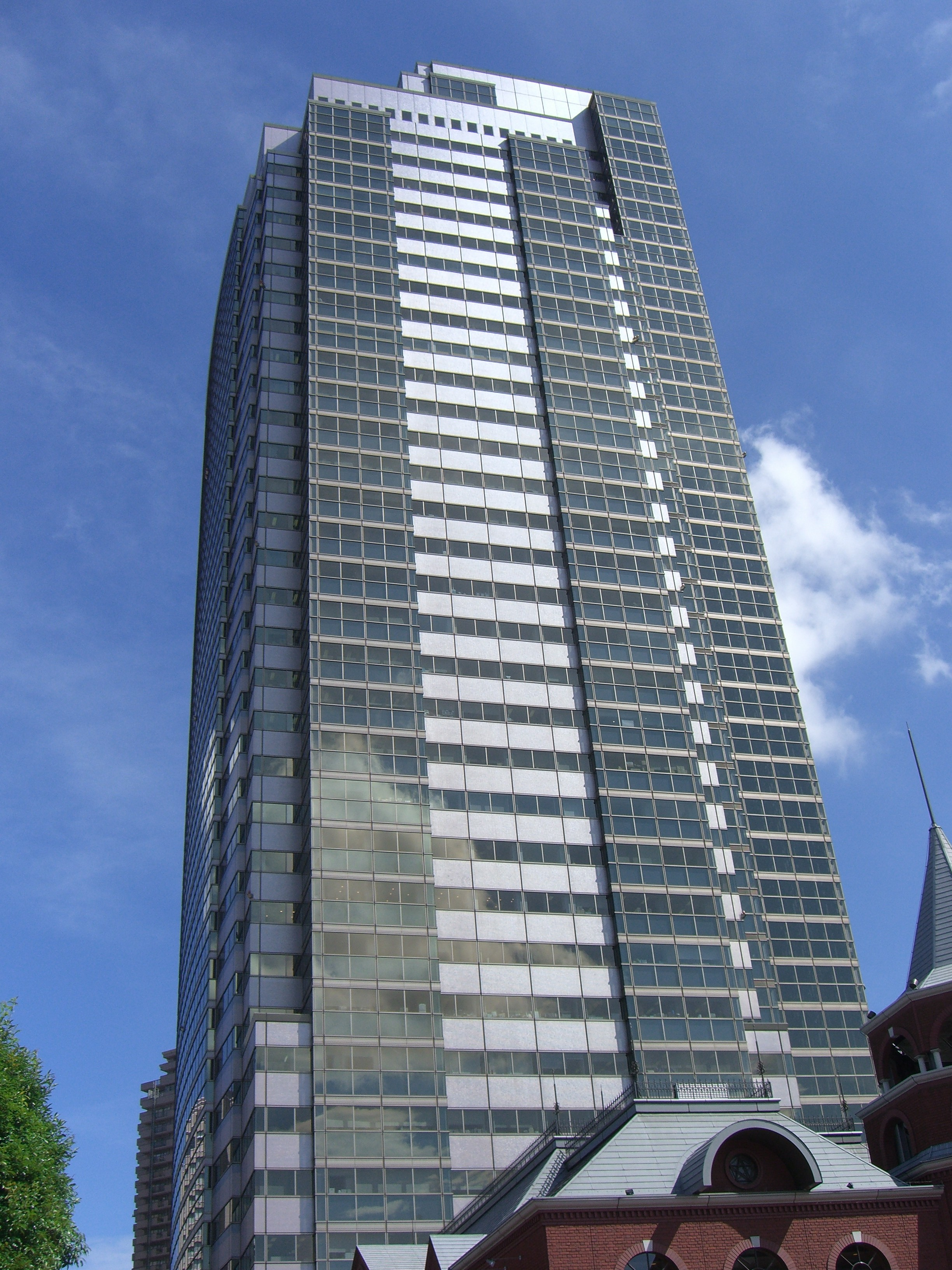 Yebisu Garden Place Tower. It is located in Ebisu 4-chome, Shibuya, Tokyo, Japan. For details of Yebisu Garden Place. please refer to the Japanese Wikipedia article 恵比寿ガーデンプレイス.